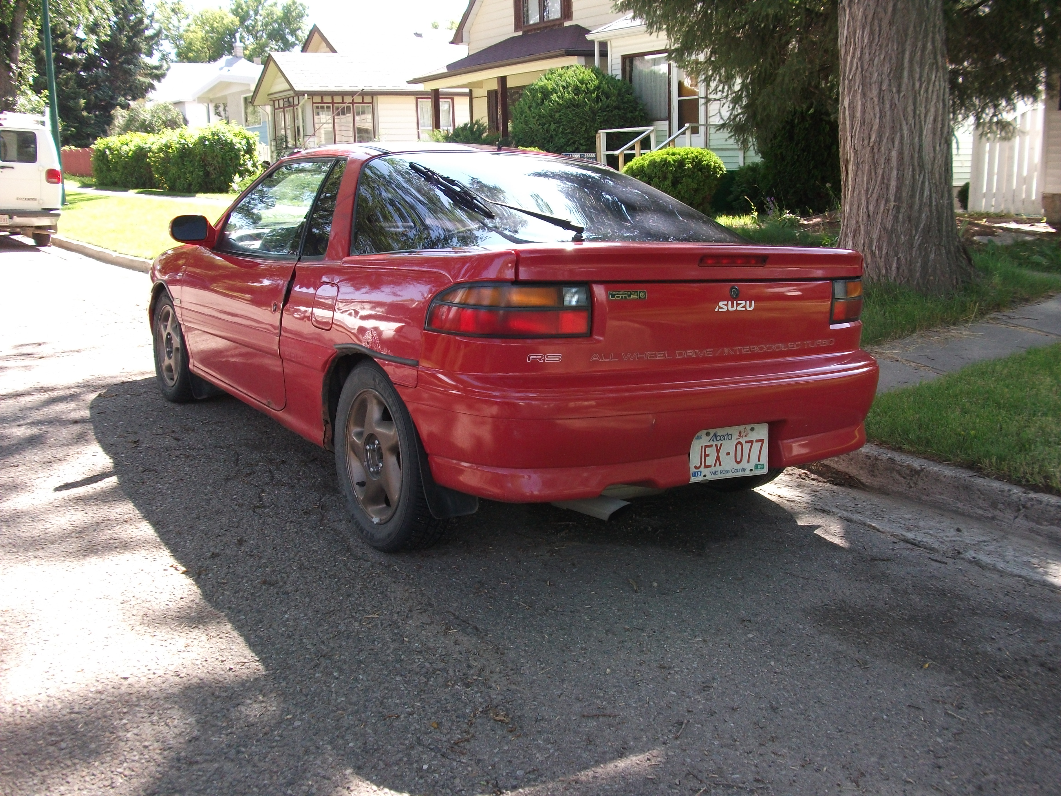 Isuzu Impulse RS with a 160 hp turbo engine and all wheel drive. Lotus apparently had a hand in the handling of these.